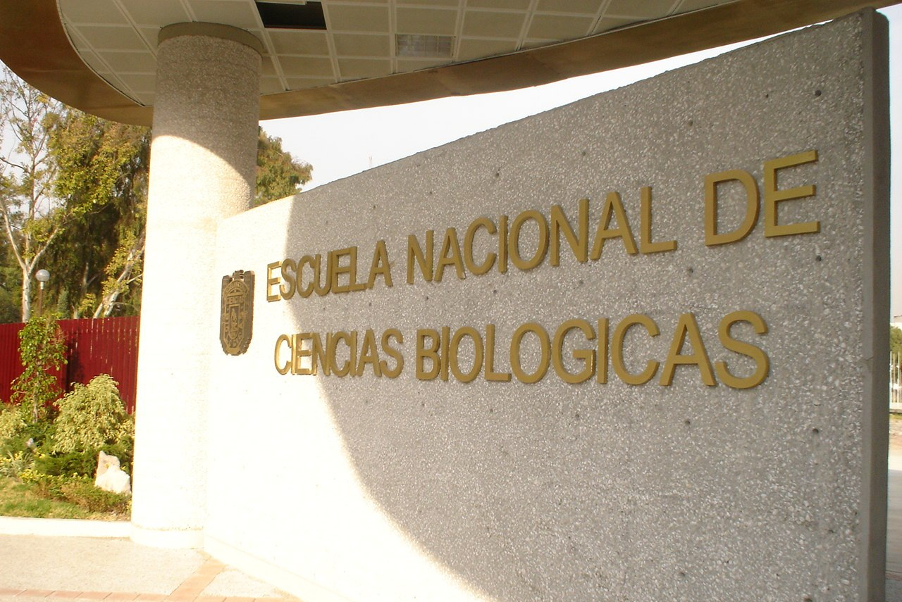 ESCUELA NACIONAL DE CIENCIAS BIOLOGICAS DEL INSTITUTO POLITECNICO NACIONAL